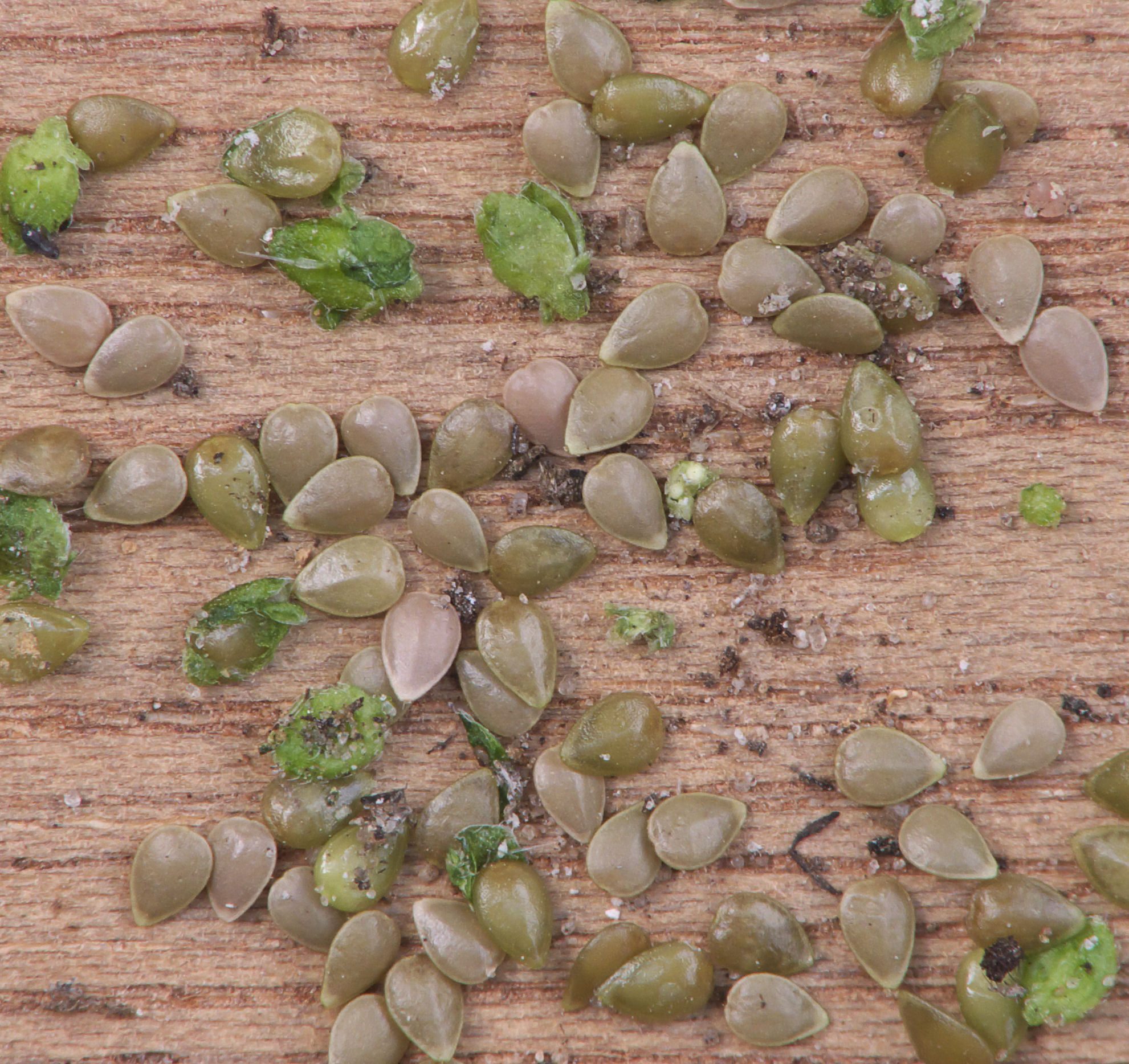 Urtica urens seeds, length 2.5-3 mm